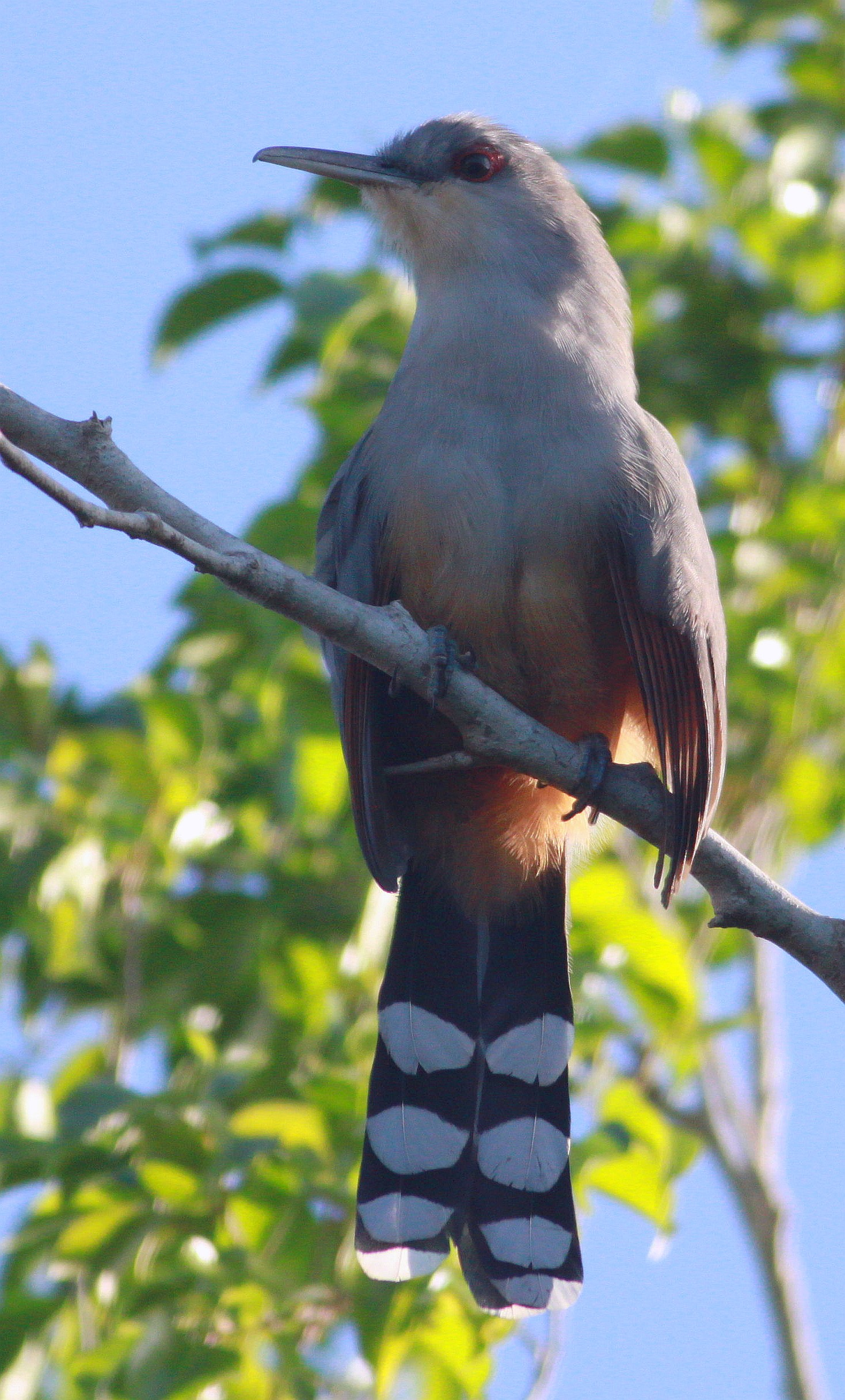 Probably, Hispaniolan-Lizard Cuckoo. Dominican Republic, near La Romana.